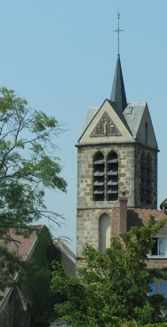 Tower from the Sainte-Marie-Madeleine church in Les Molières (Essonne, Île-de-France, France)